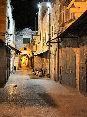 Old Jerusalem, chain gate street Bab El-Silsileh road רחוב שער השלשלת at the corner with Ha-Kotel street